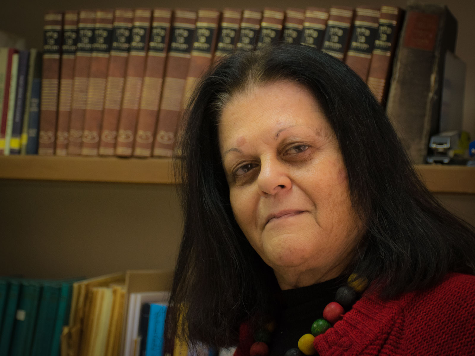 Ruth Almagor Ramon